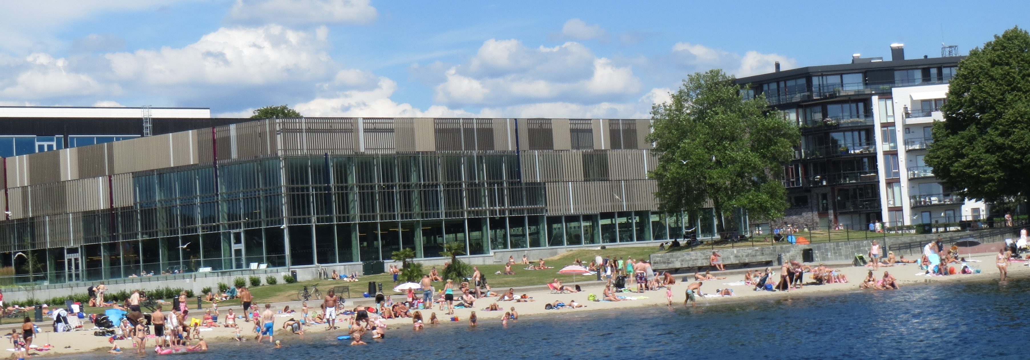 Aquarama in Kristiansand, Norway behind Bystranda beach